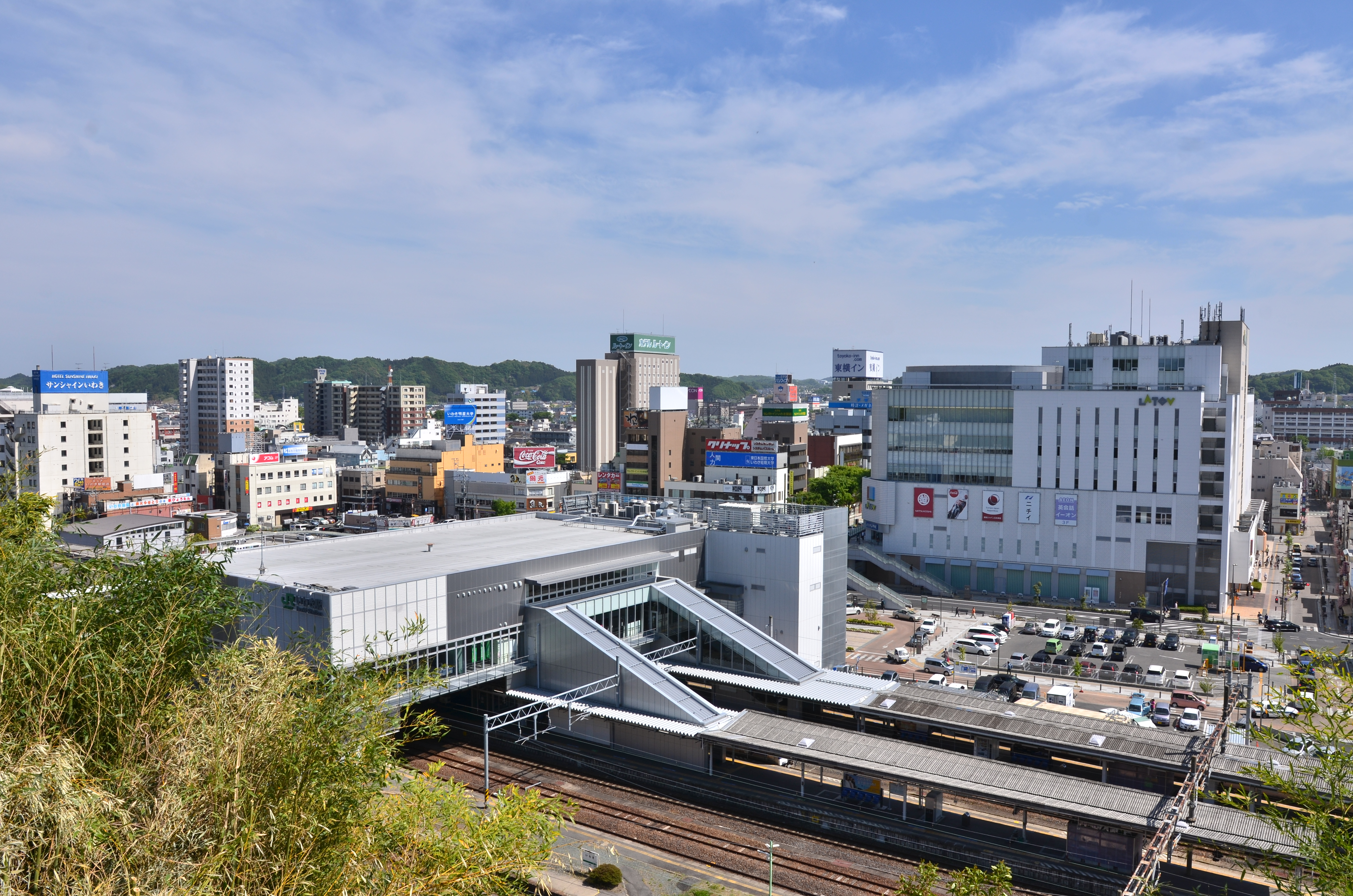 View of Iwaki station in Iwaki city, Fukushima prefecture, Japan